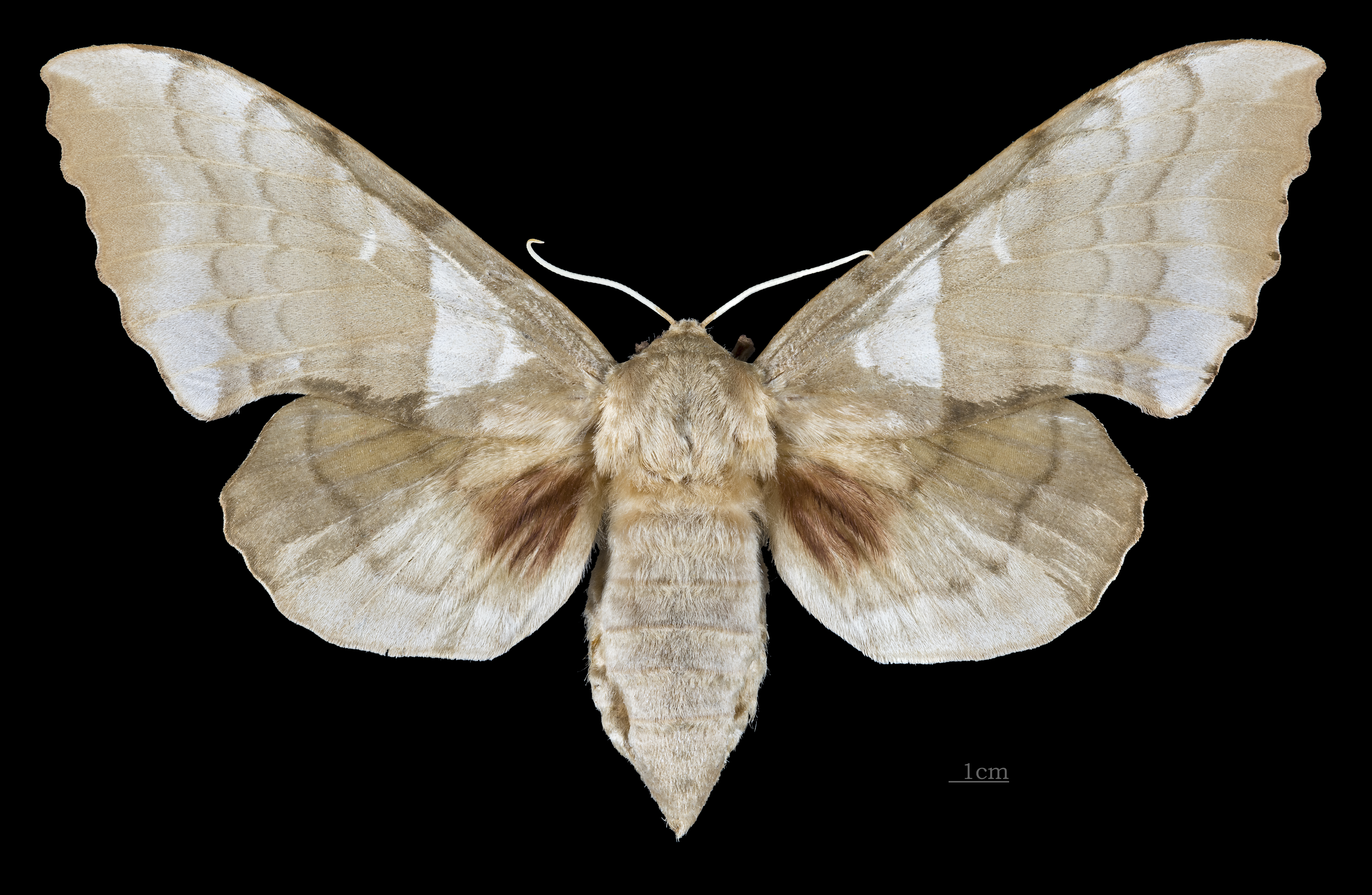 Laothoe austauti - Dorsal side Collection of the Mathematician Laurent Schwartz